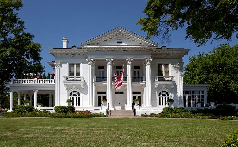 Governor's Mansion, Montgomery, Alabama (Cropped version of File:Alabama Governor's Mansion by Highsmith 01.jpg)